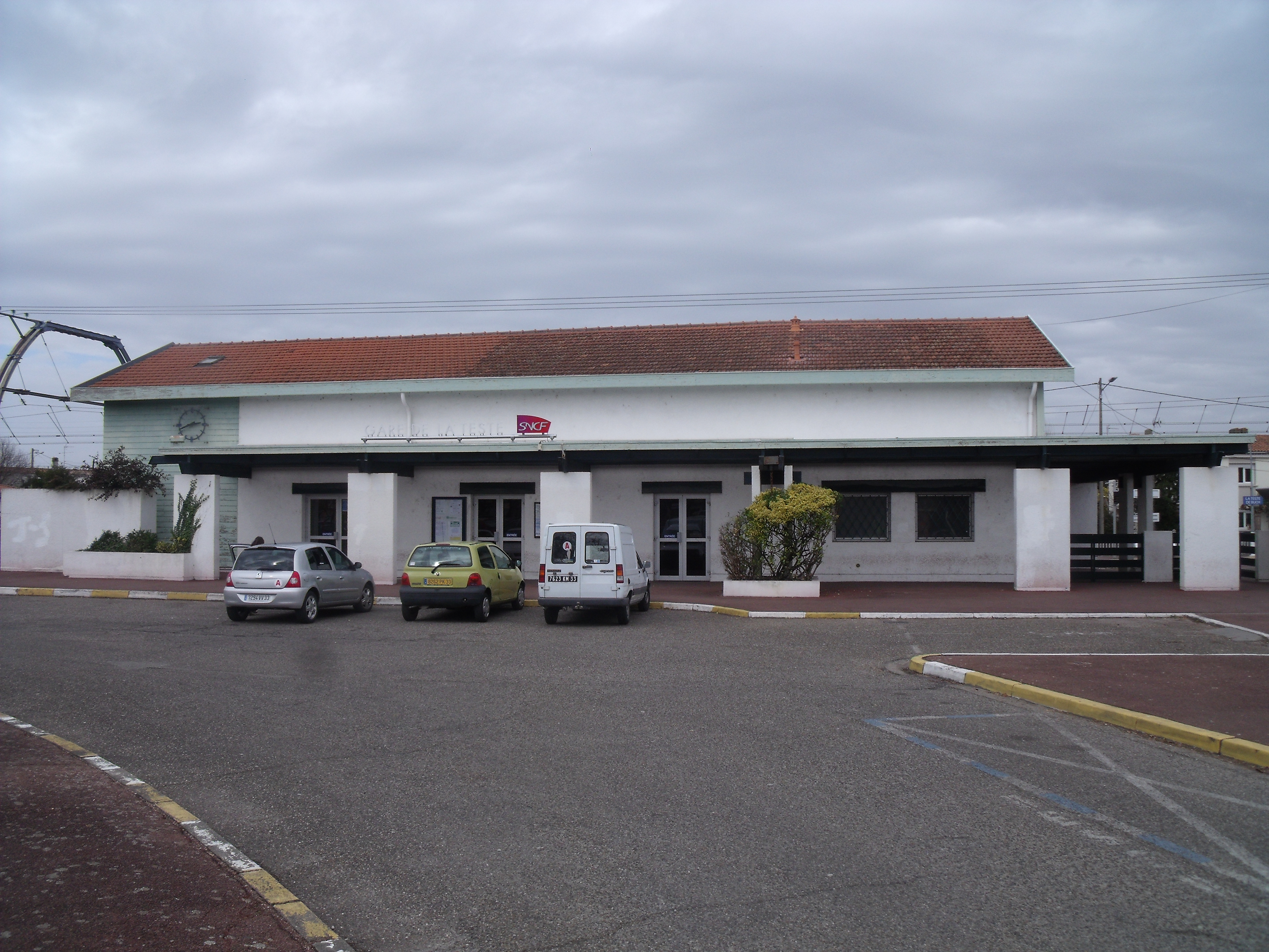 Station of La Teste, in La Teste-de-Buch, Gironde, France.